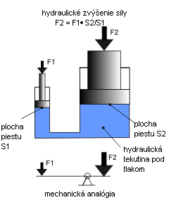 Hydraulic force ratio principle (slovak translation)